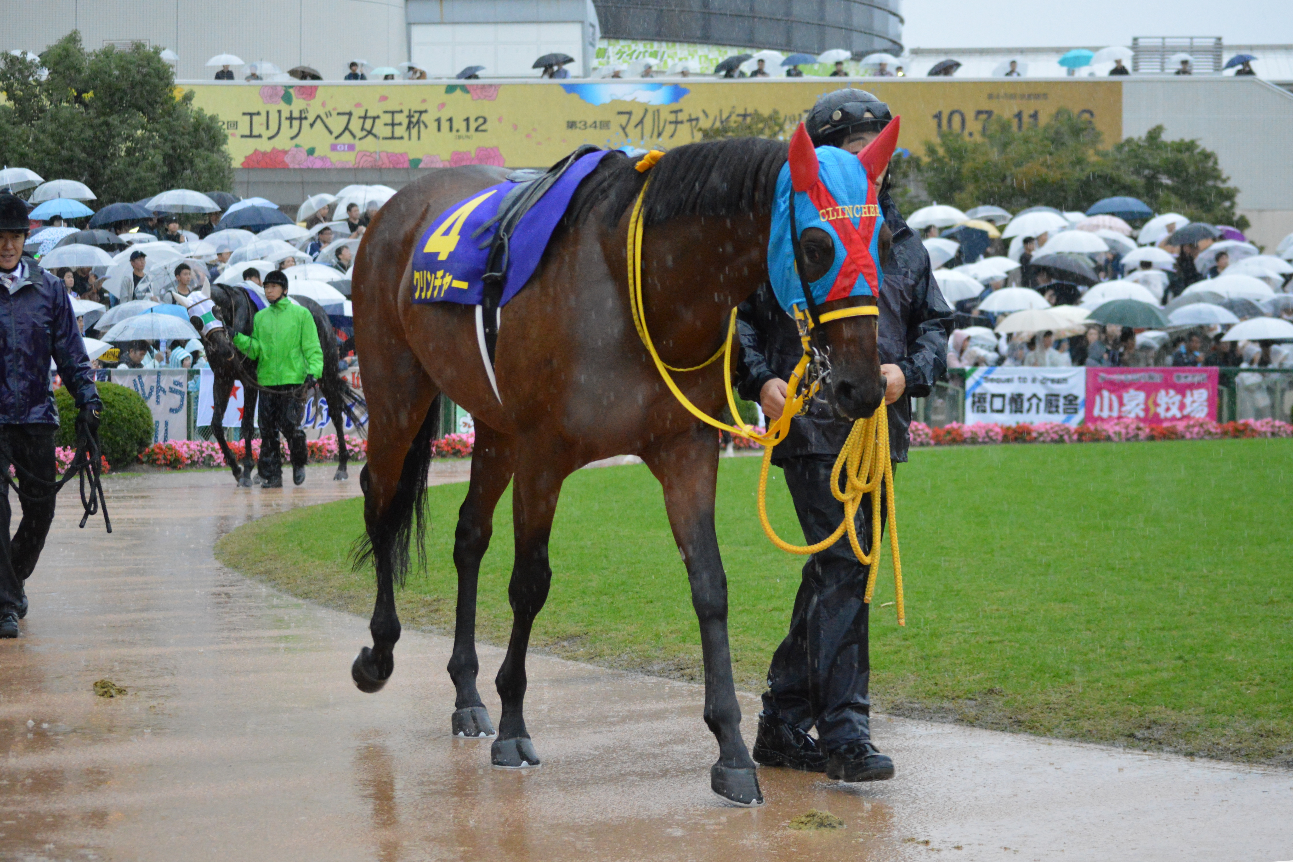 Japanese race horse Clincher at Kyoto racecourse. Kyoto (JPN) 22 Oct 2017Kikuka Sho (Japanese St.Leger) (Grade 1) (3yo Colts & Fillies) (Turf) 1m7f Soft RankHorse NameOddsAgeWgtTrainerJockey1st Kiseki (JPN)7/2FC39-0Katsuhiko SumiiMirco Demuro2ndClincher (JPN)30/1C39-0Hiroshi MiyamotoYusuke Fujioka3rdPopocatepetl (JPN)43/1C39-0Yasuo TomomichiRyuji Wada4th-18th/omission